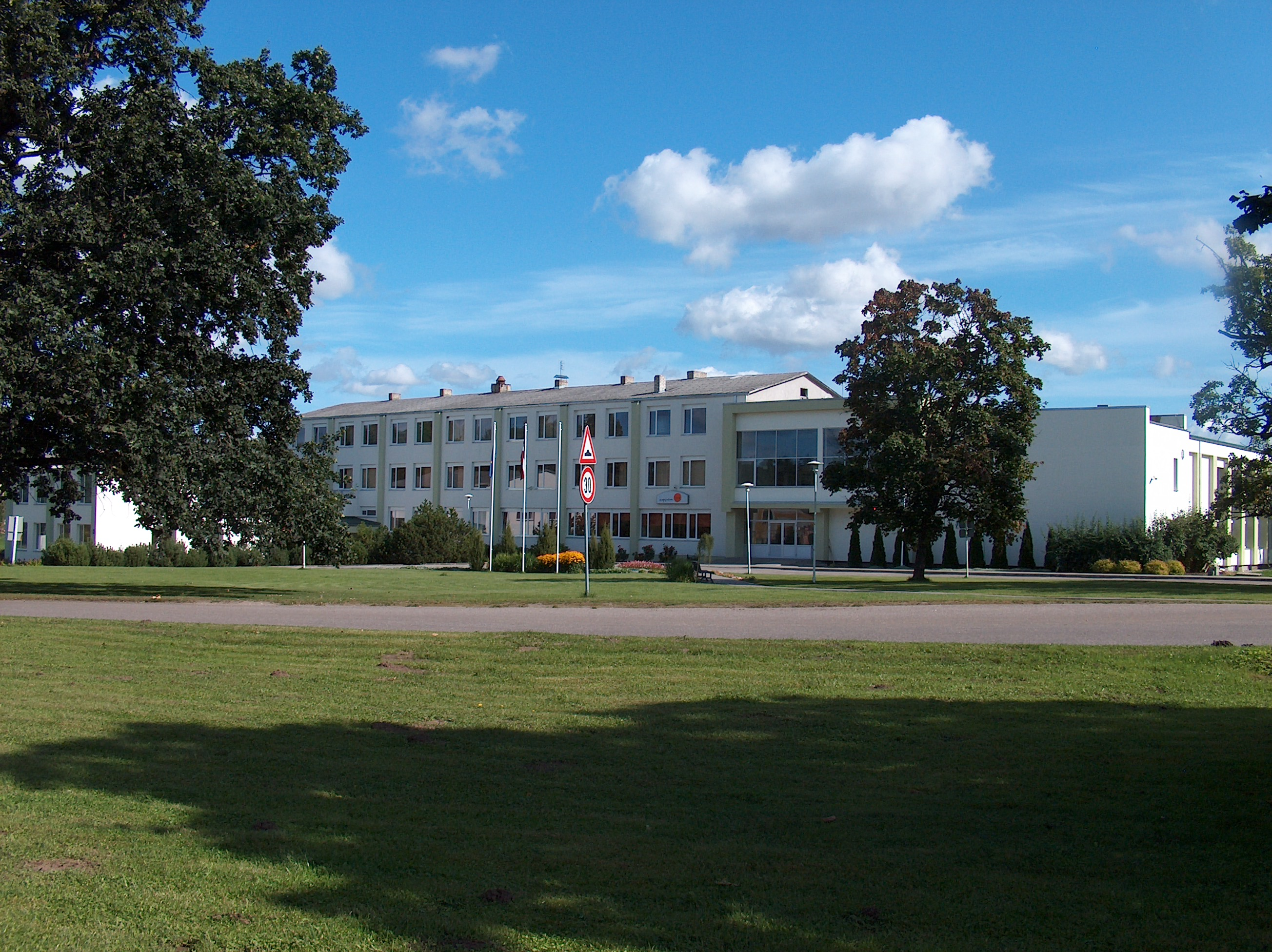 Administrative building of Ģibuļi parish